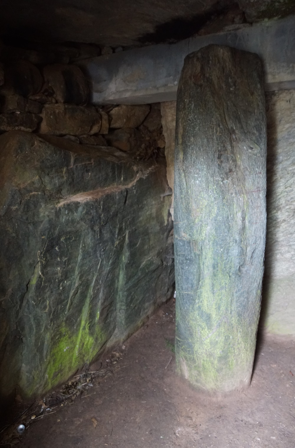 Bryn Celli Ddu Burial Chamber, Anglesey, Wales. In the burial chamber.